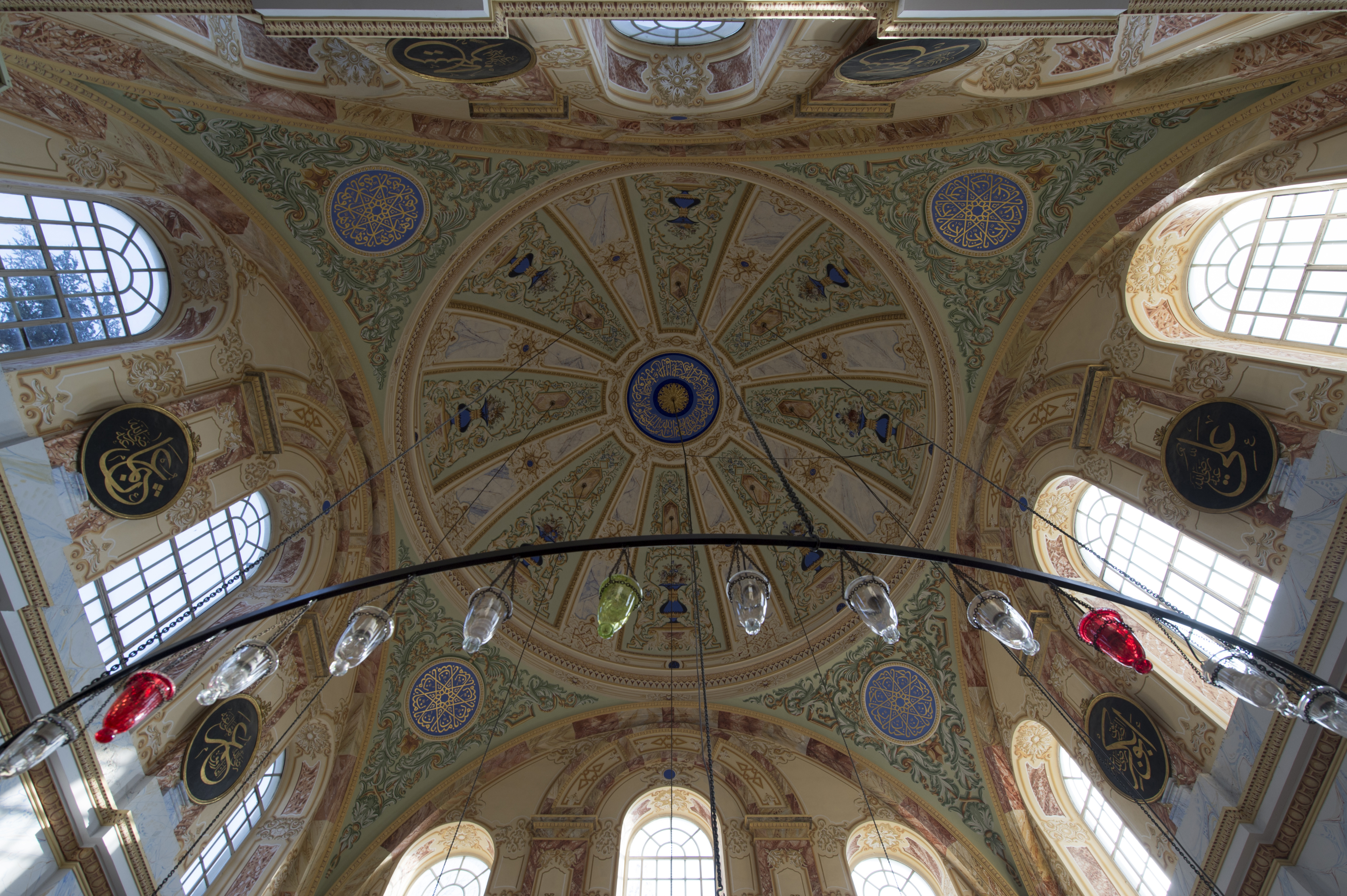 Altunizade mosque or Zühtü Ismail Pasha Mosque is located in the district of Üşküdar of Istanbul. It dates from the Ottoman period and was built by Ismail Pasha Zühdü altunizade. The construction of the mosque began in 1865, it was opened for worship in 1866, one year later. The mosque has undergone an extensive restoration process in 2005. The original plan was built as a mosque. Later a cemetery, a fountain and rows of shops were added.